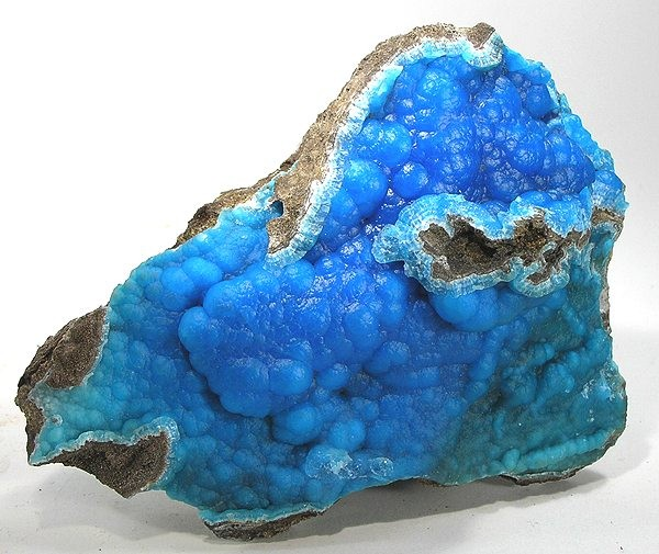 Hemimorphite Locality: Wenshan Mine, Dulong ore field, Wenshan County, Wenshan Autonomous Prefecture, Yunnan Province, China (Locality at ) Size: 10.9 x 9.1 x 4.3 cm. Wenshan is known for its colorful blue hemimorphites, and in fact they have always been prized since they have never come out in volume. But just look at this incredible color and the luster! I have simply never seen hemimorphite from here or ANYWHERE with color like this - and the surface is a wonderfully shiny field of botryoidal forms. It is even slightly translucent, reminiscent of the apple-colored smithsonite from the 79 Mine in Hayden in many ways other than color.